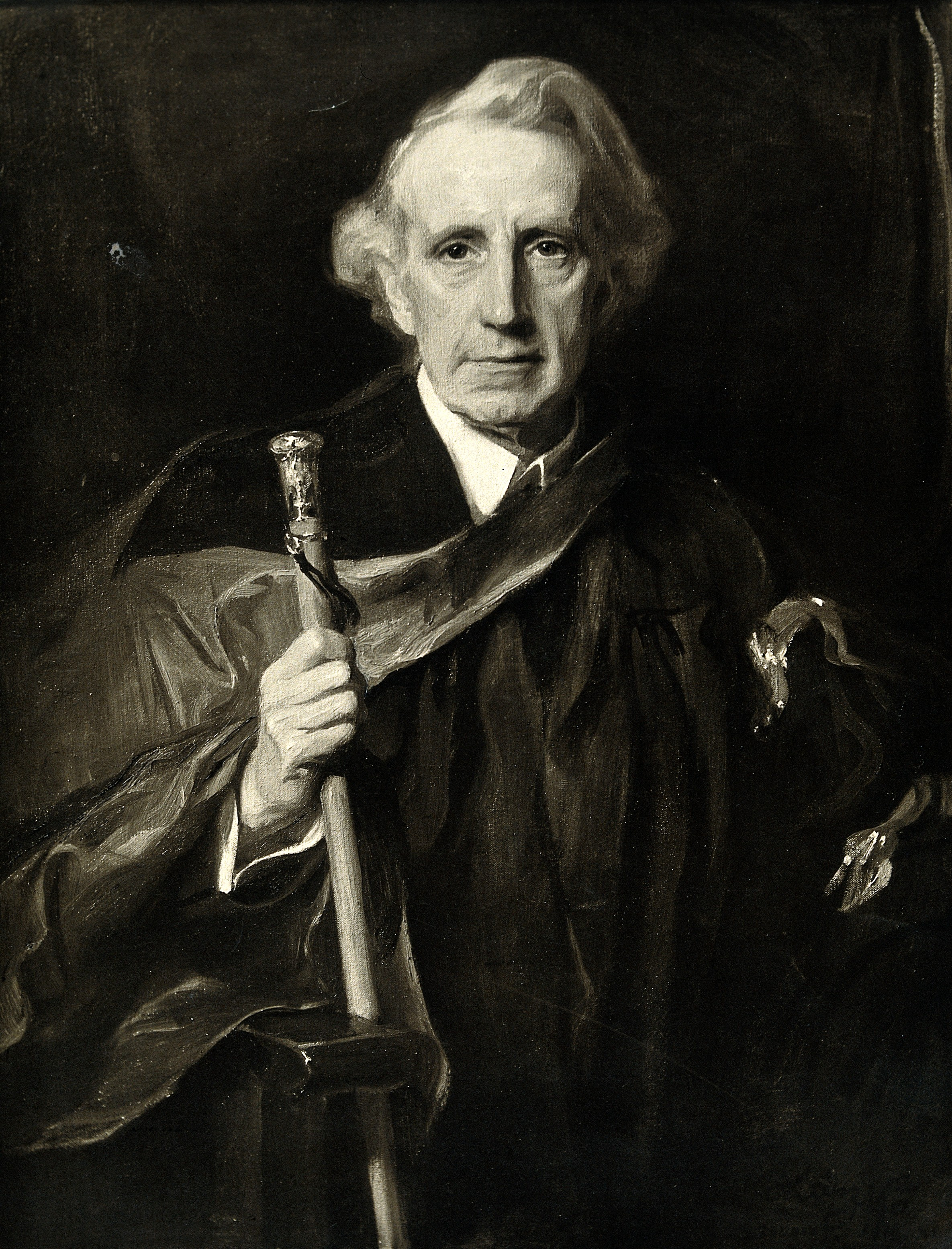 Alexander Hugh Freeland Barbour. Photograph by Paul Laib after a painting by Philip de Laszlo. Iconographic Collections Keywords: portrait photographs